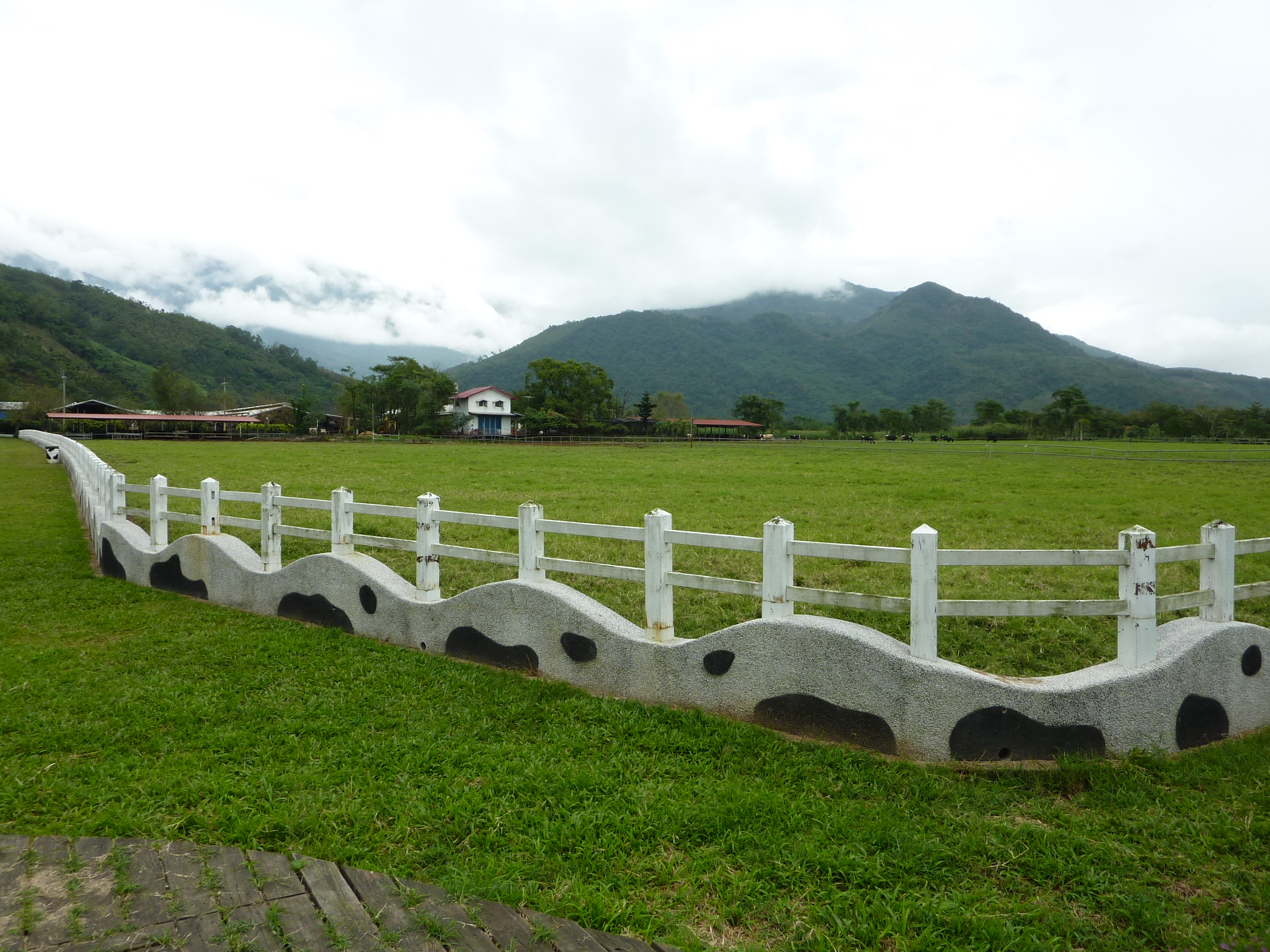 自己拍攝